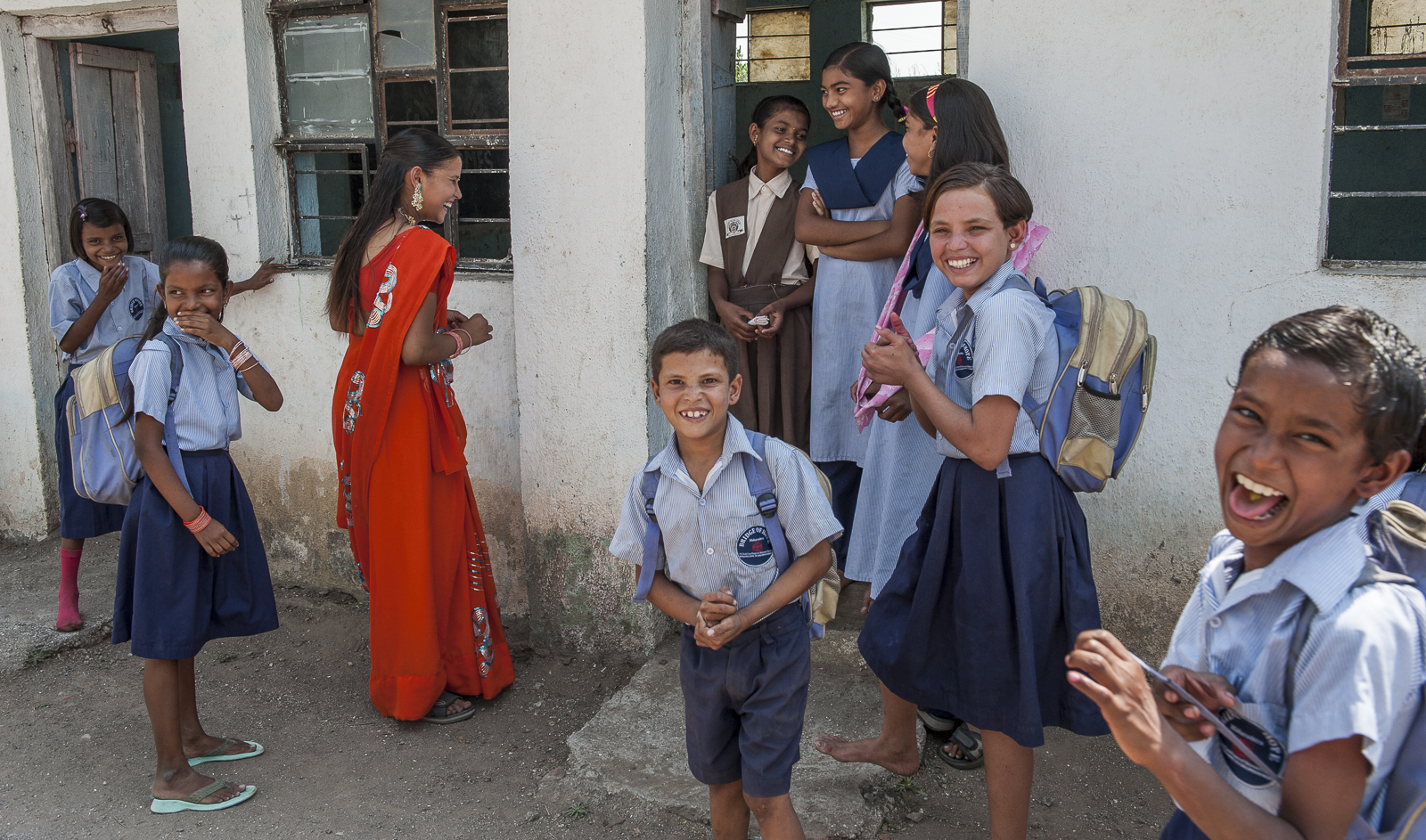 Bridge of Hope students on their way to class.